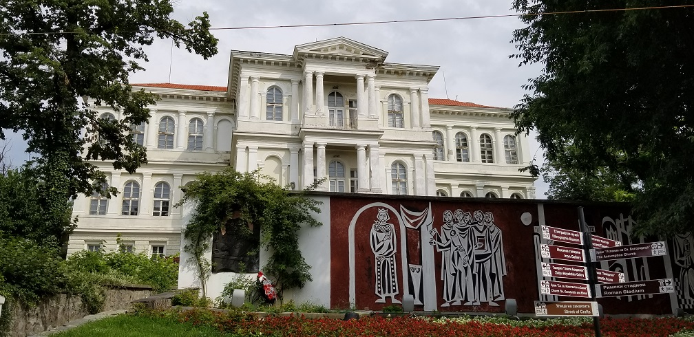 Plovdiv City Art Gallery